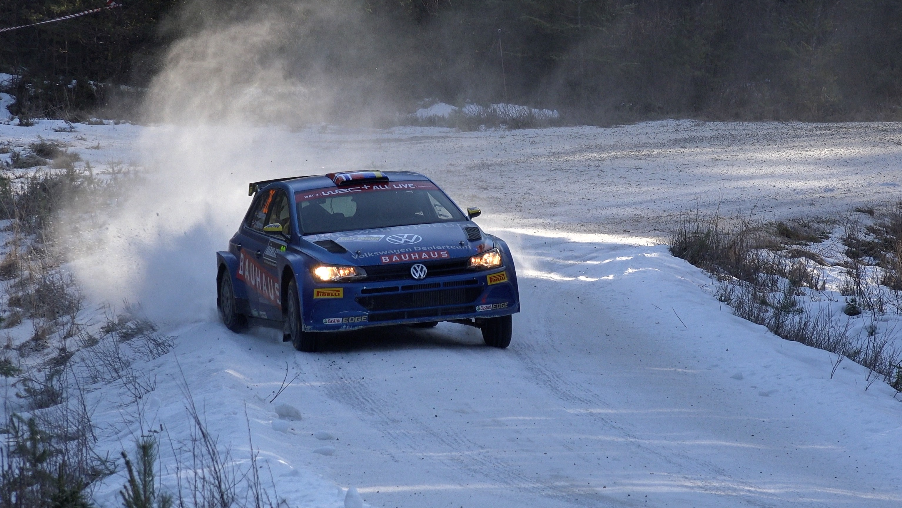 Johan Kristoffersson during Rally Sweden 2020.